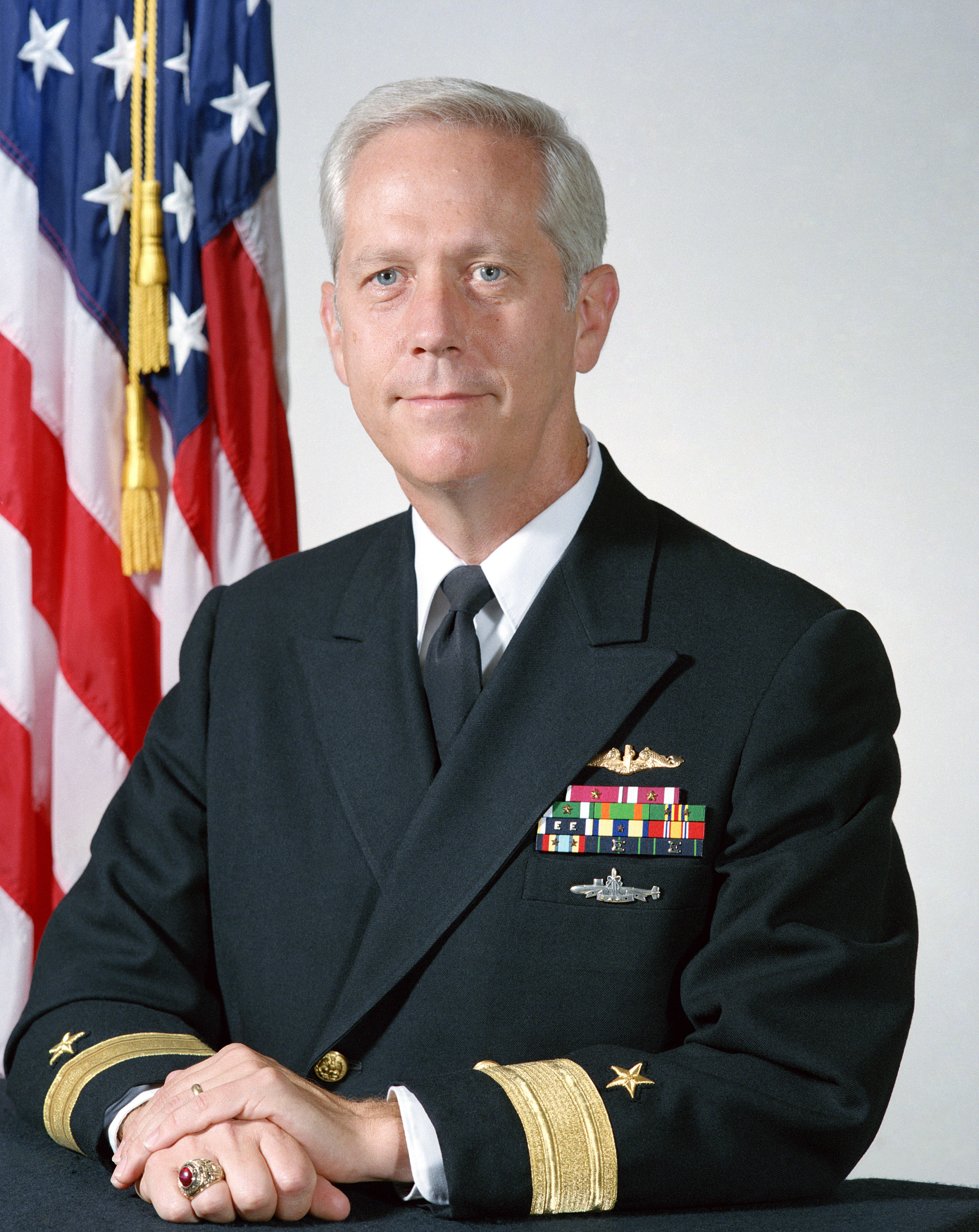 United States Navy Rear Admiral George W. Davis, VI.